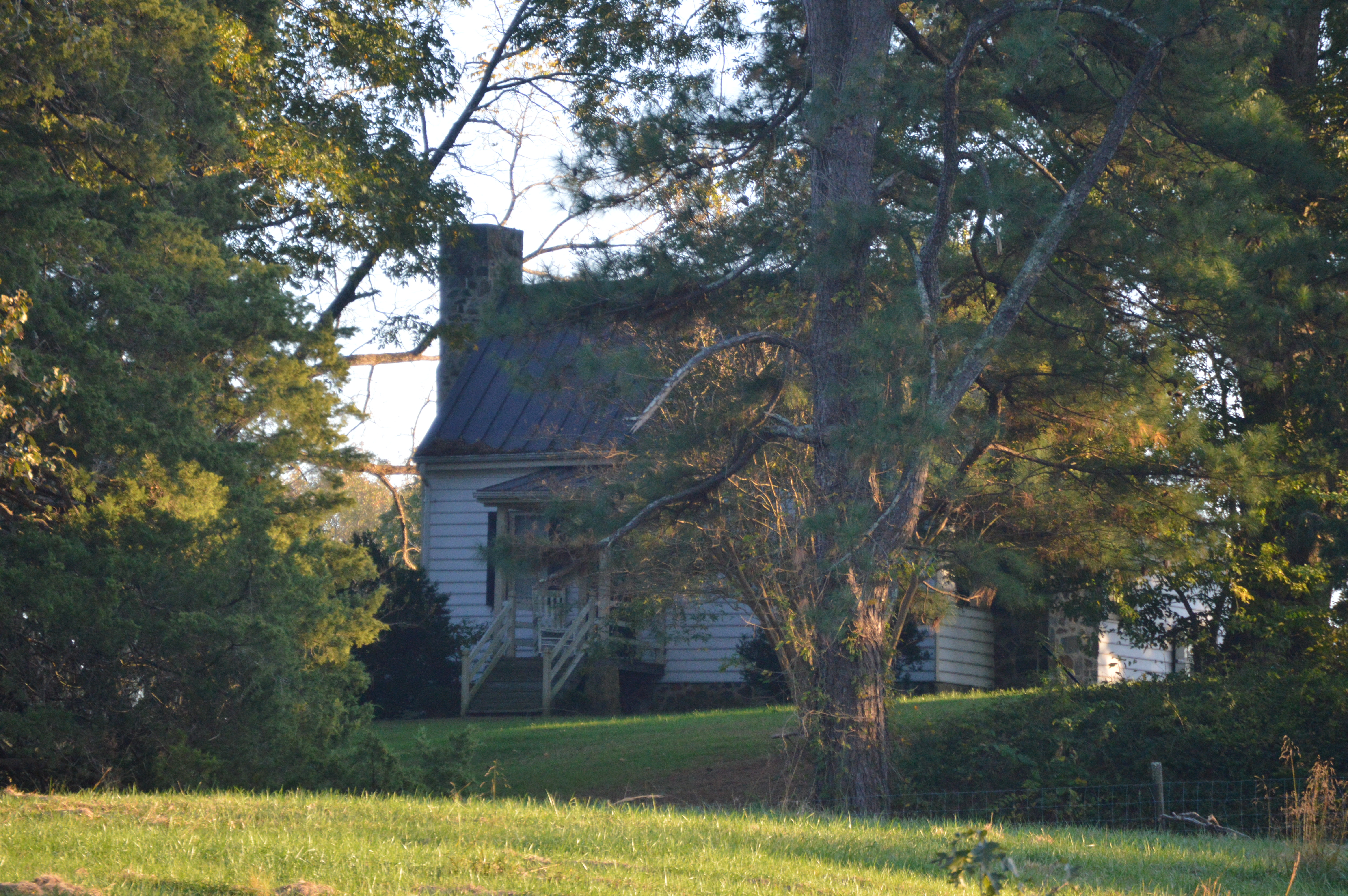 Roadside view of the Alexander Watson Batte House, located on Scotland Drive west of Allen Road in Greensville County, Virginia, United States. Built in 1835, it is listed on the National Register of Historic Places.